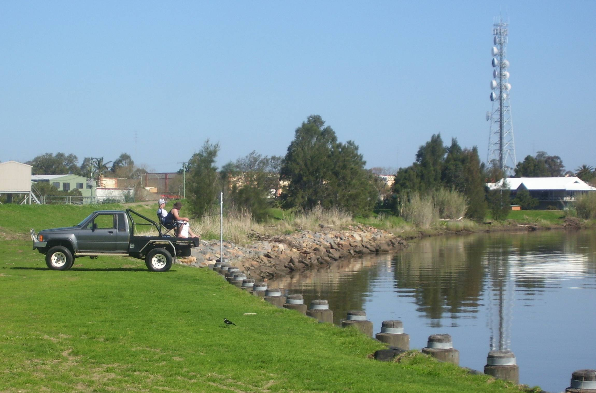 Local residents relaxing while enjoying a spot of fishing near the Fitzgerald bridge. At this location it is possible to have your fishing line in two rivers at once.